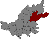 Location of Aiguamúrcia in Alt Camp